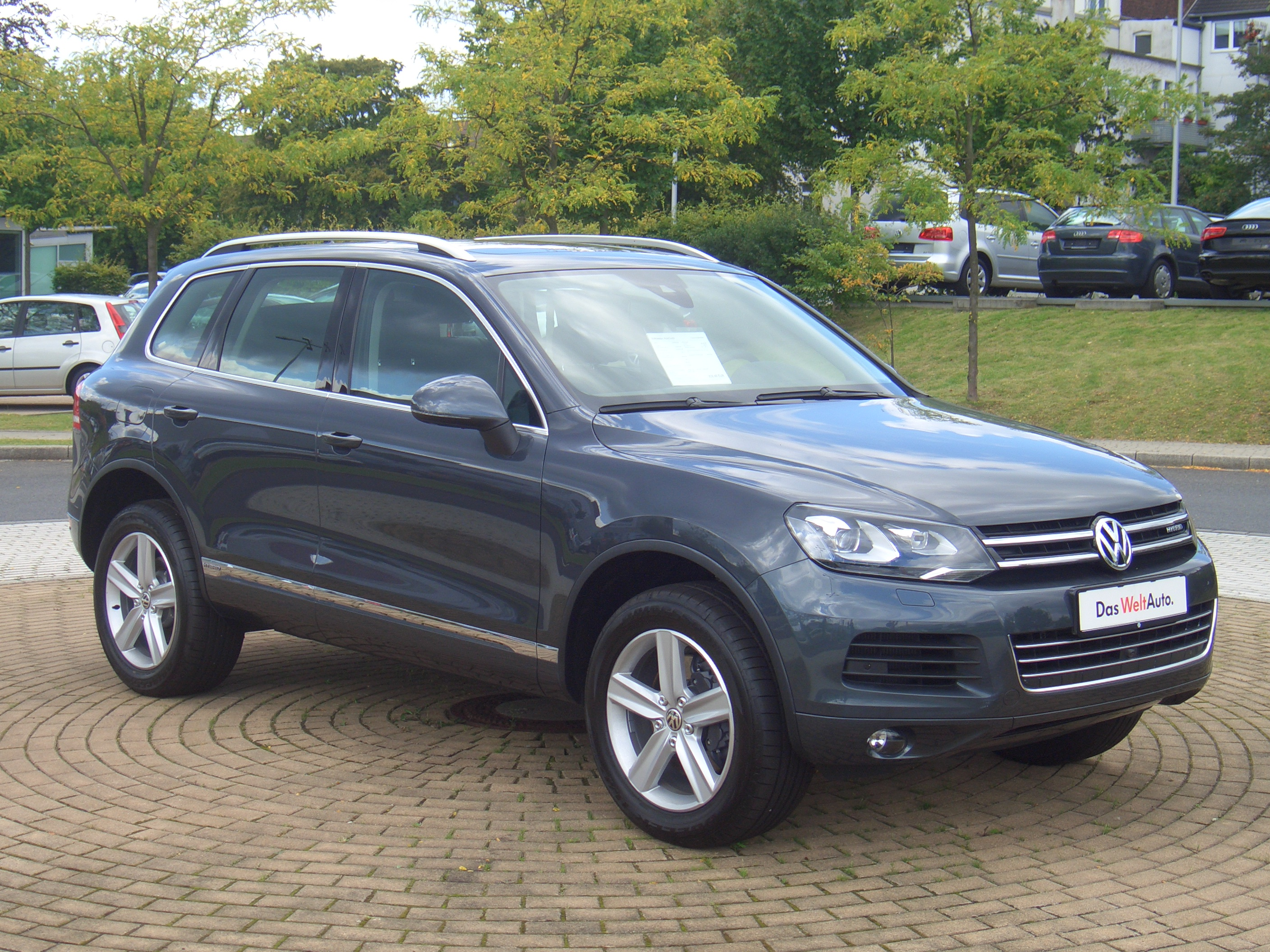 Volkswagen Touareg II Hybrid 4motion (C2), from 2010, seen at VW Dealer in Dusseldorf, Germany